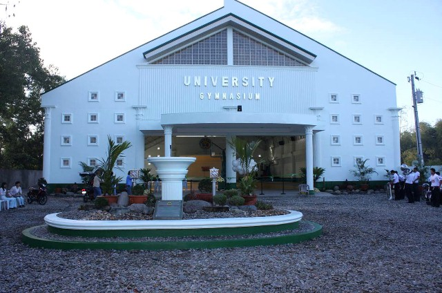 Events and sports done here